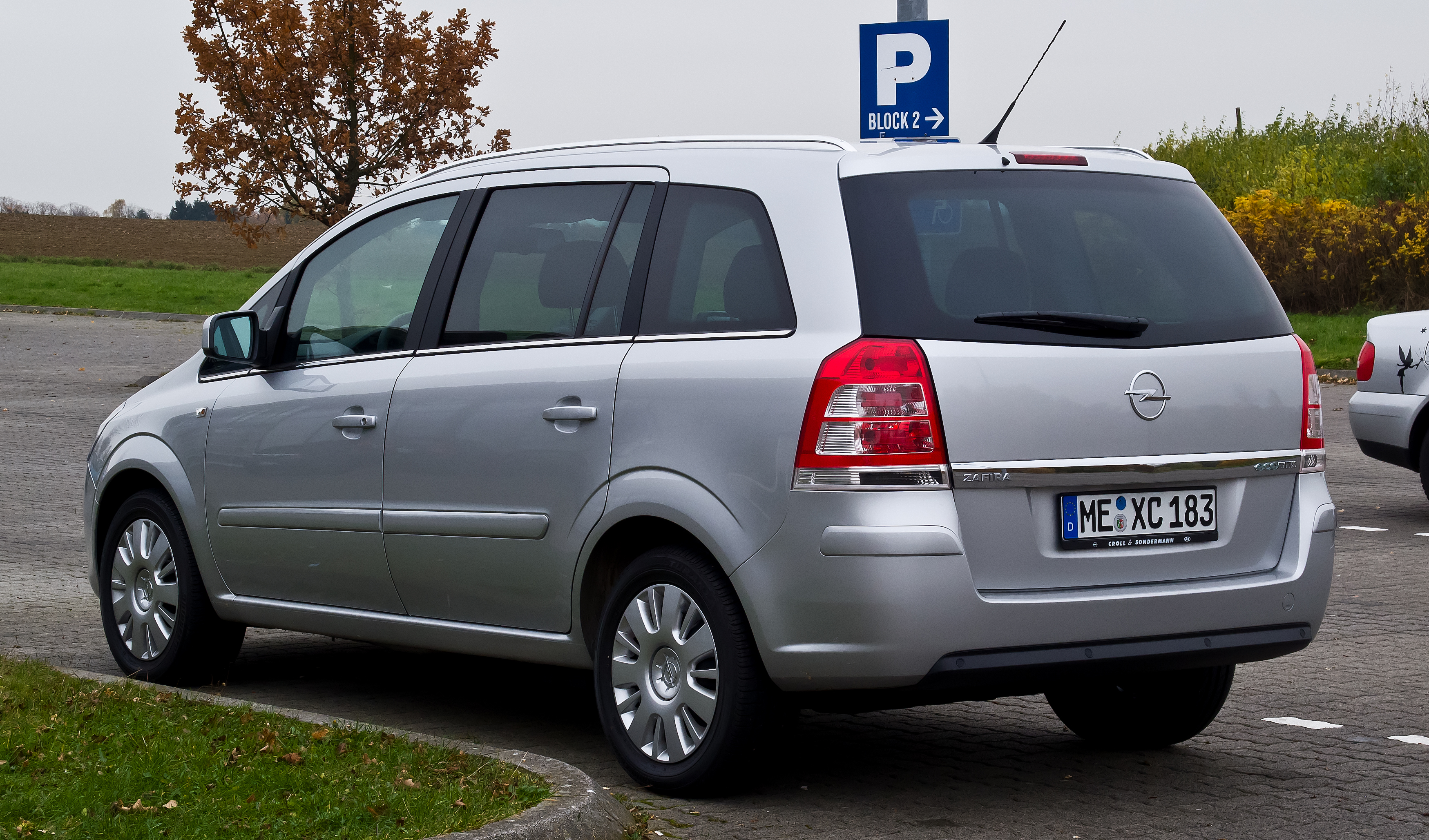 Opel Zafira 1.6 CNG ecoFlex Turbo Design Edition (B, Facelift)